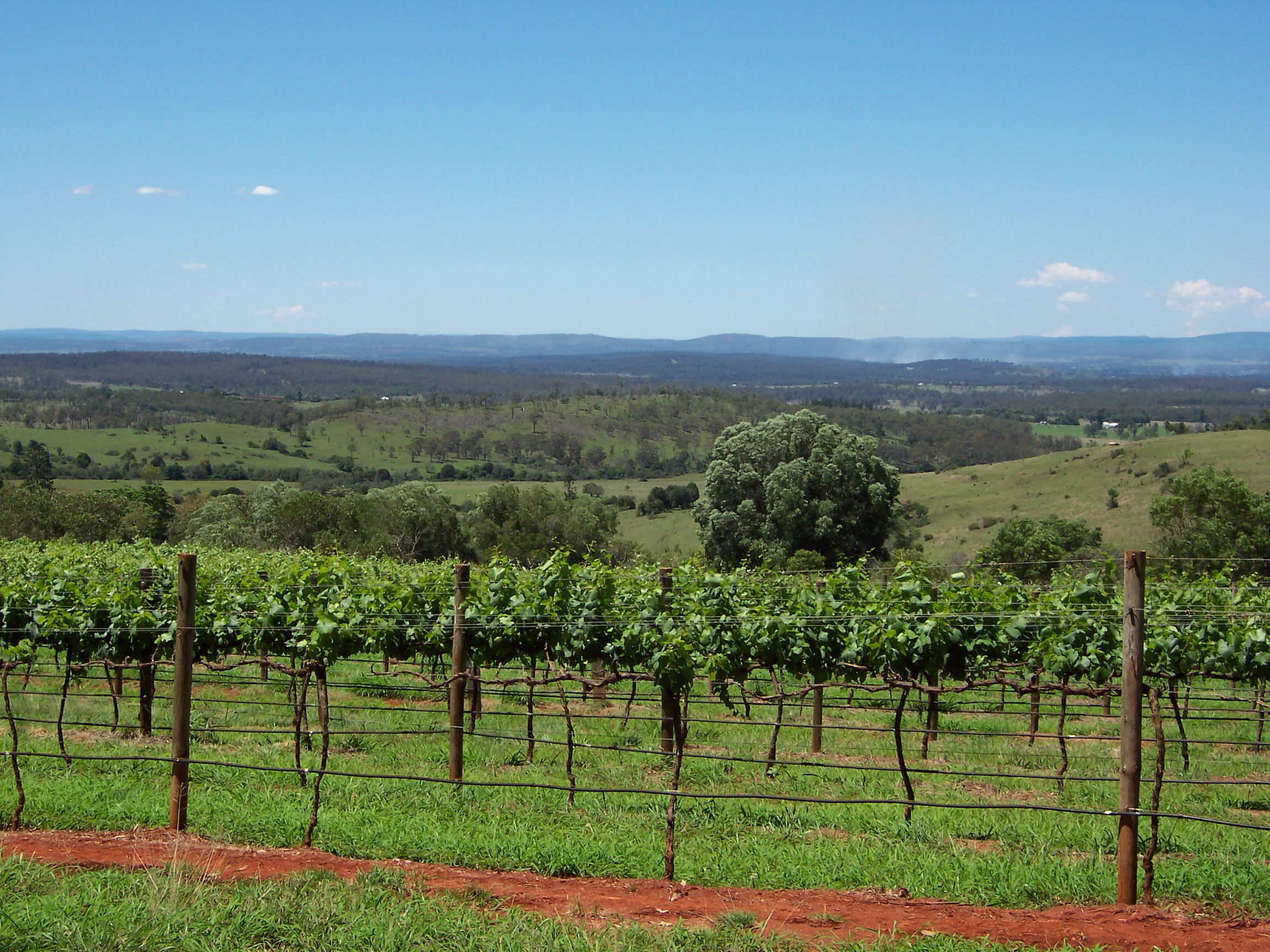 View from the "Captain's Paddock" vineyard, Kingaroy, Australia. Photograph taken by User:Rossrs, October 22, 2005